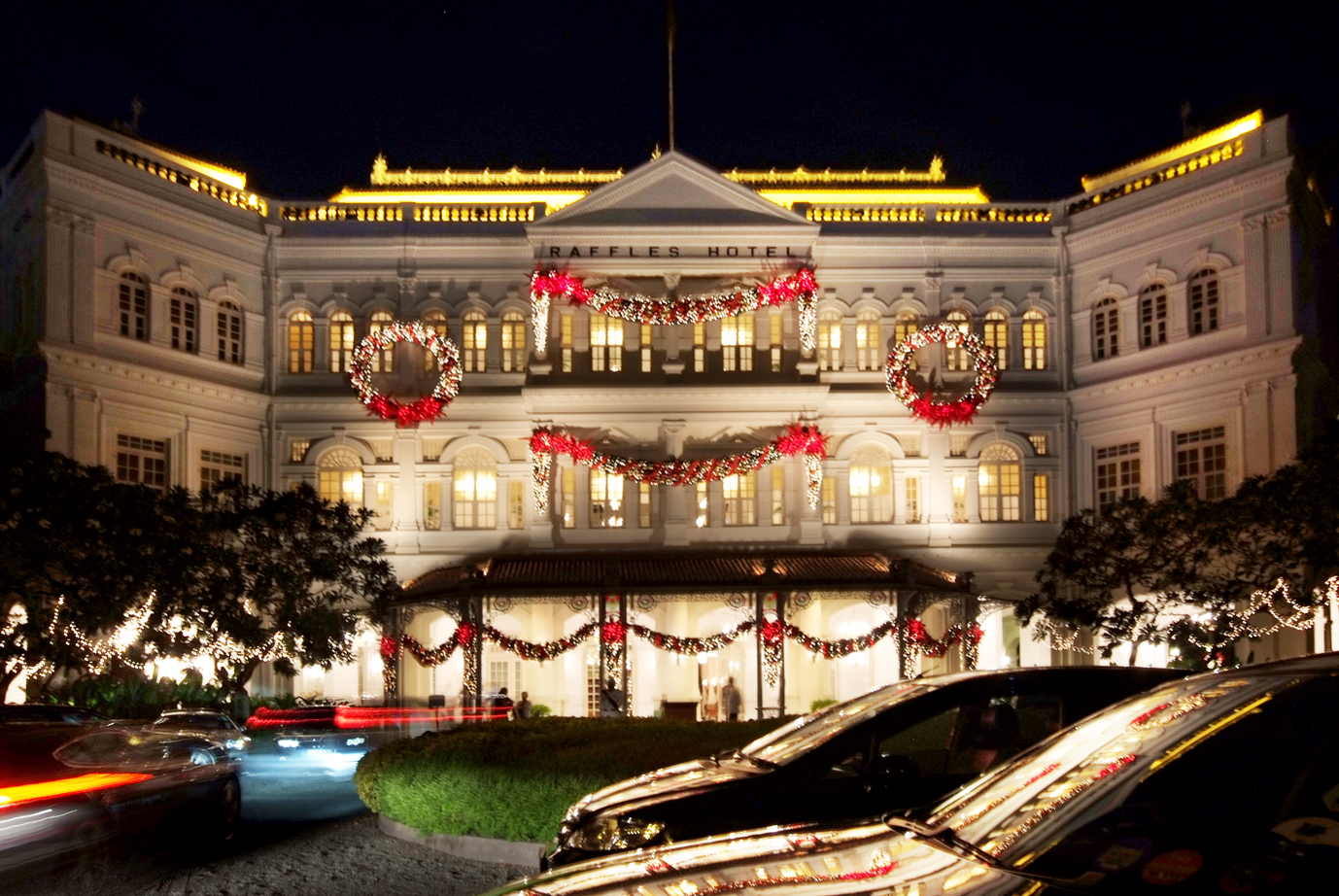 The Raffles Hotel, Singapore. The Japanese occupation: During World War II, the Raffles was renamed Syonan Ryokan (昭南旅館 shōnan ryokan?), incorporating Syonan ("Light of the South"), the Japanese name for occupied Singapore, and ryokan, the name for a traditional Japanese inn. More than 300 Japanese troops committed suicide in the hotel using grenades following the liberation of Singapore. The hotel survived World War II despite the hardships Singapore faced and the use of the hotel at the end of the war as a transit camp for prisoners of war. In 1987, the government declared the hotel a National Monument. Source - Wikipedia